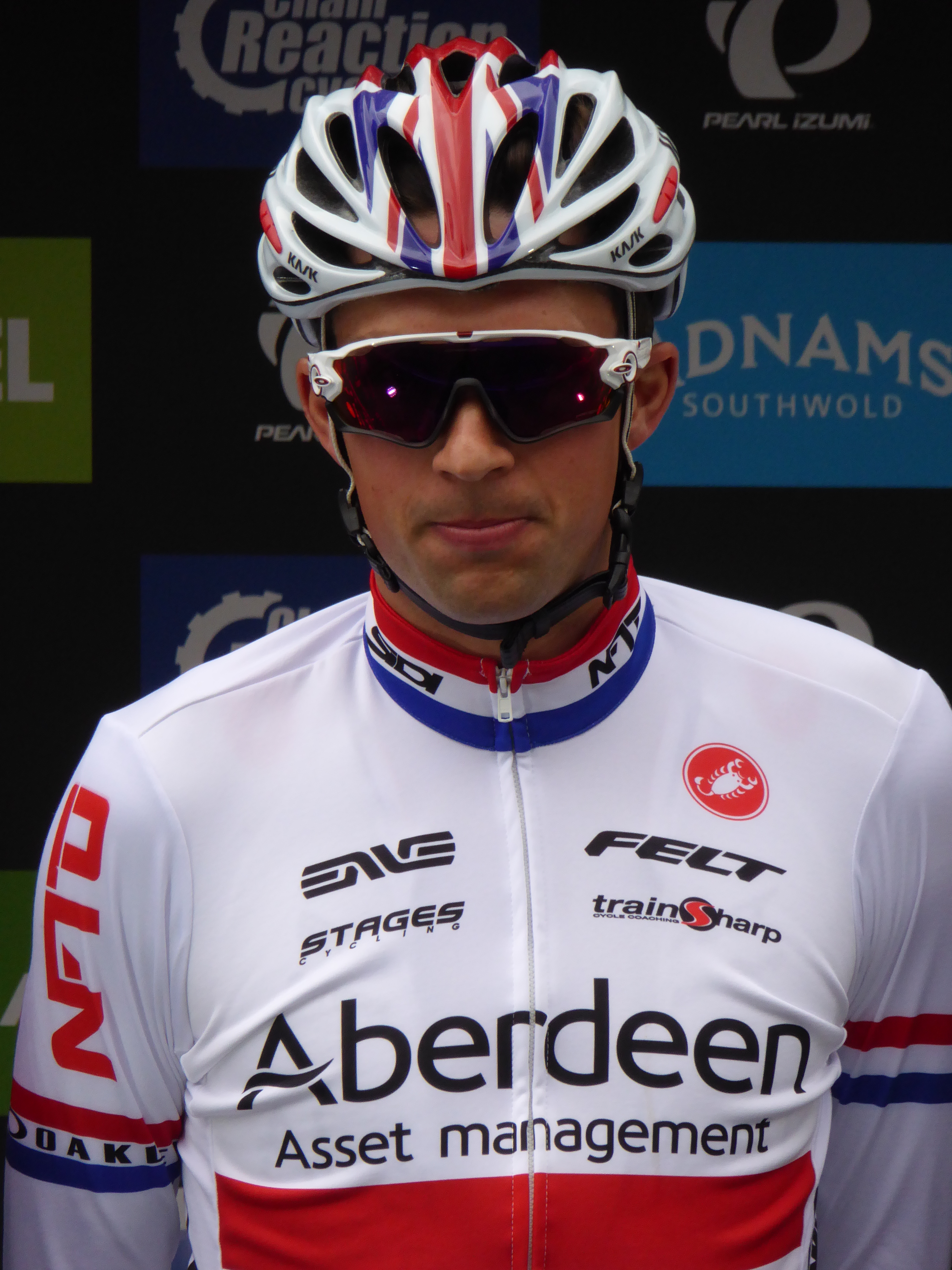 Ian Bibby, the British national criterium champion, prior to Round 2 of the Pearl Izumi Tour Series in Motherwell, on 17 May 2016